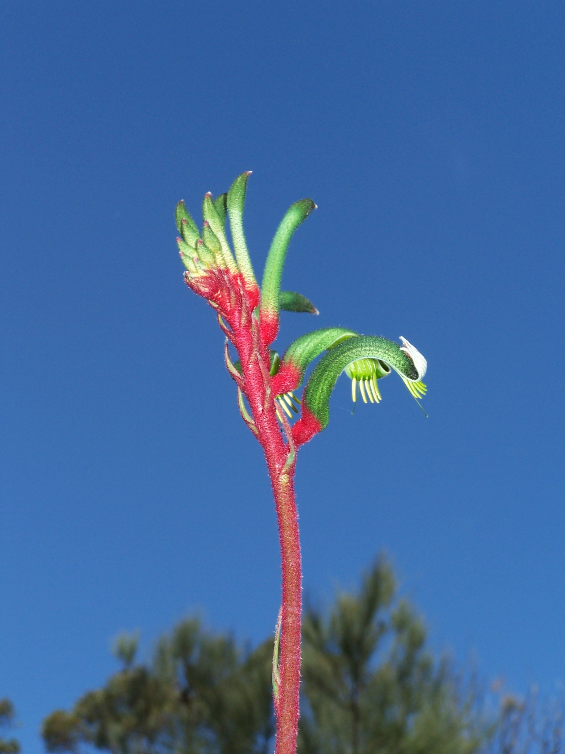 The Common or Native Kangaroo Paw (Anigozanthos manglesii). This is the red variety which is the Western Australian state floral emblem. Taken in Kings Park, Perth, WA, on September 26 2005. Image taken and uploaded by User:Gnangarra Improved image quality photo taken by myself, (Gnangarra) on the 18th September 2006